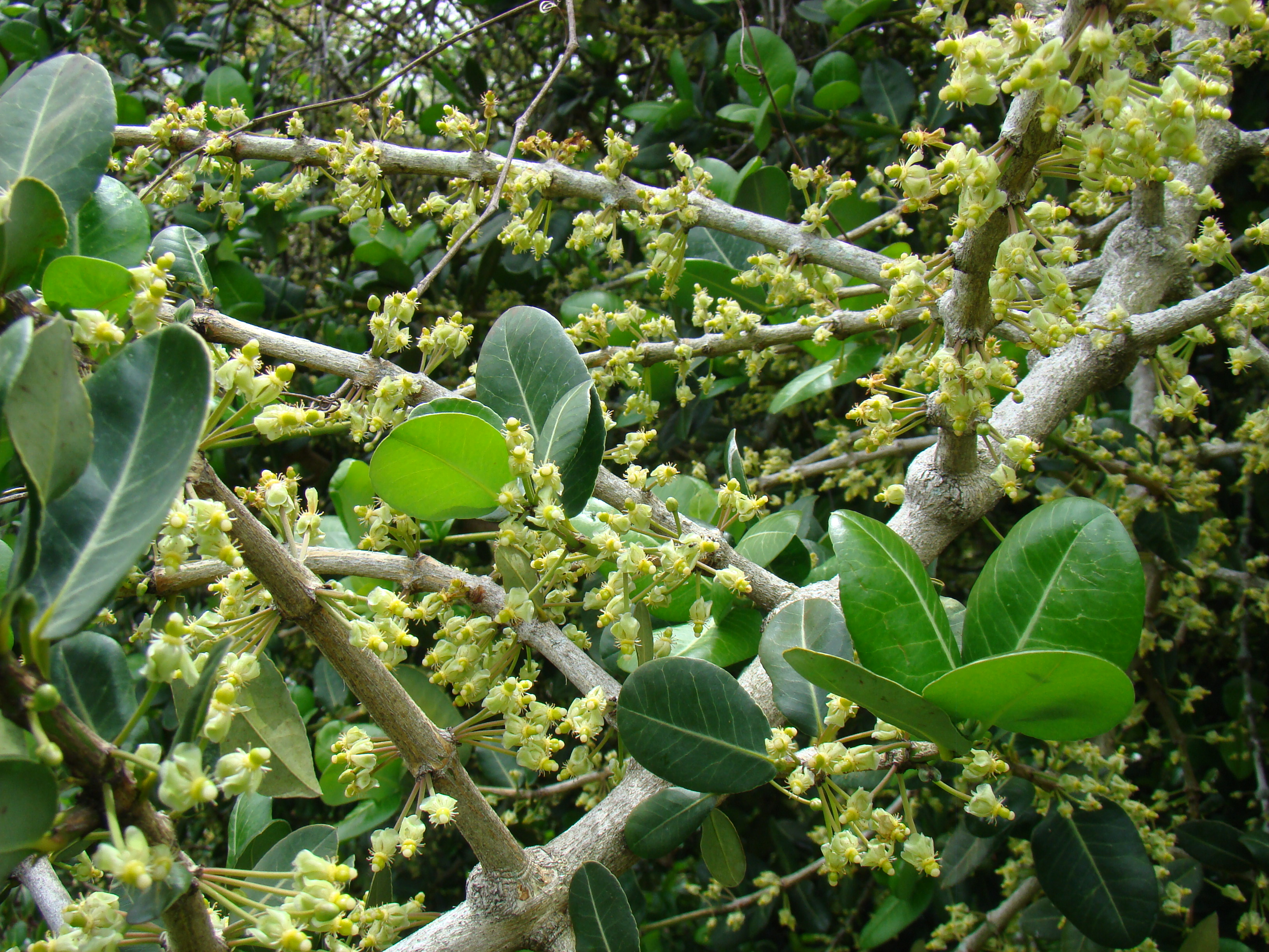 An Imbe (Garcinia livingstonei / Clusiaceae) tree is profusely flowering in the Mounts Botanical Garden, West Palm Beach, Florida.